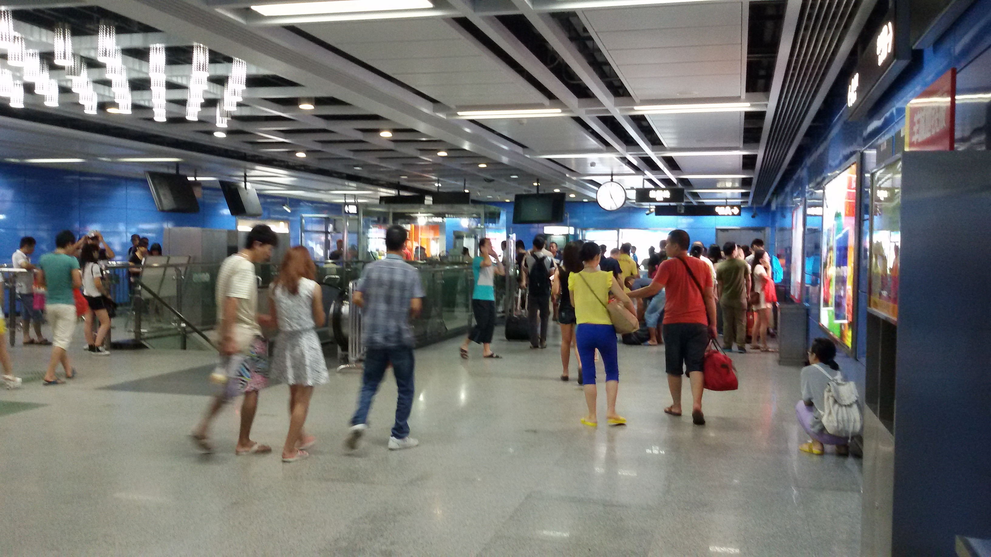 Station Concourse for Longgui Station, Guangzhou Metro. 粵語: 廣州地鐵，龍歸站嘅站廳。